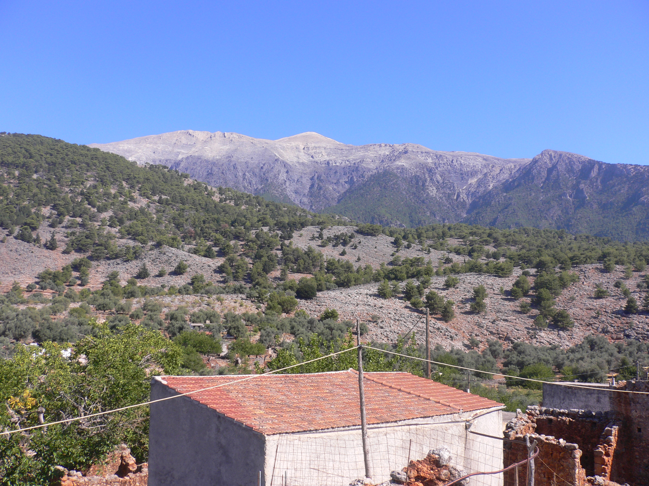 southern slopes Lefka Ori